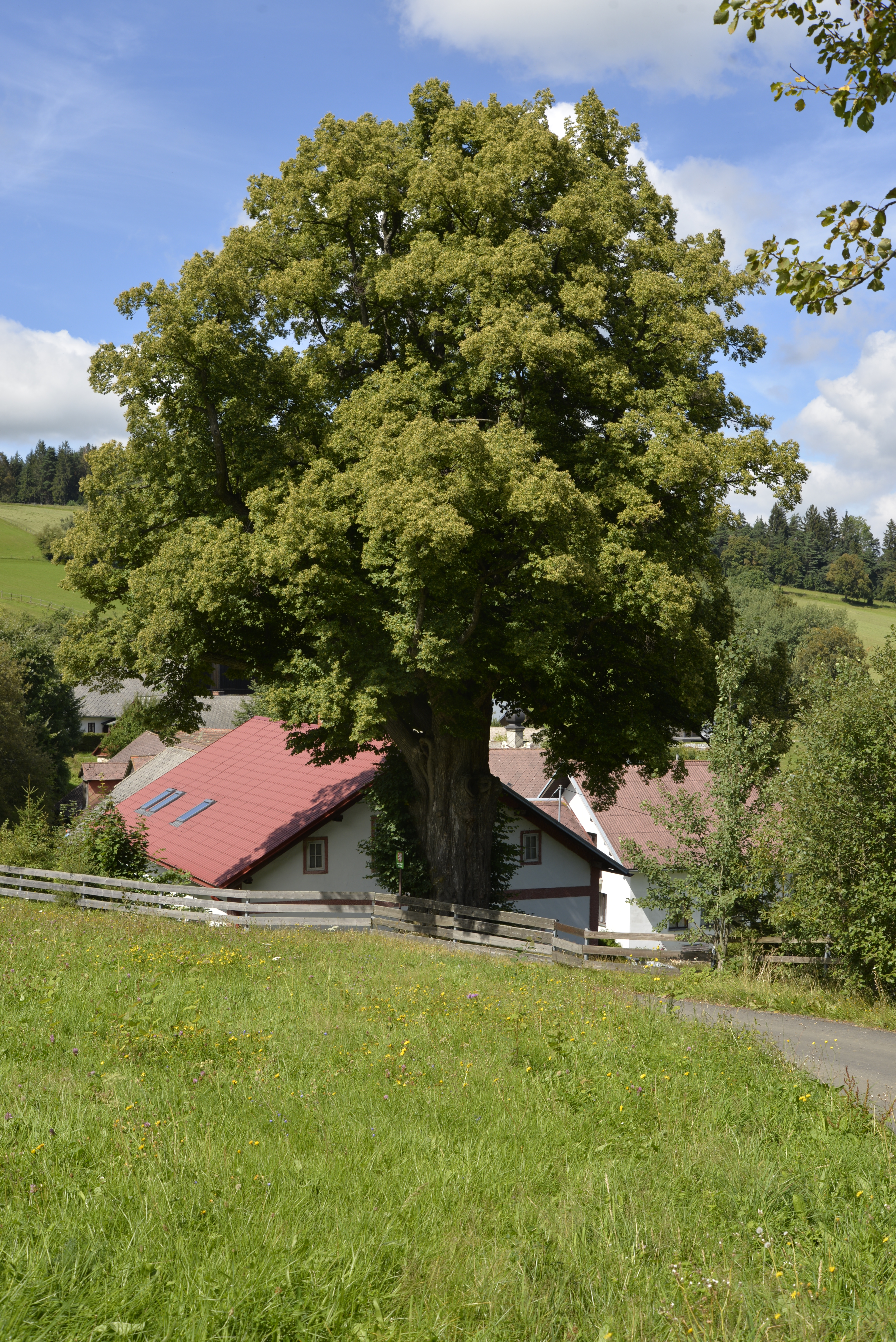 Tilia cordata Chalupských is a memorial tree in village Javoříčko, northwest from Hartmanic